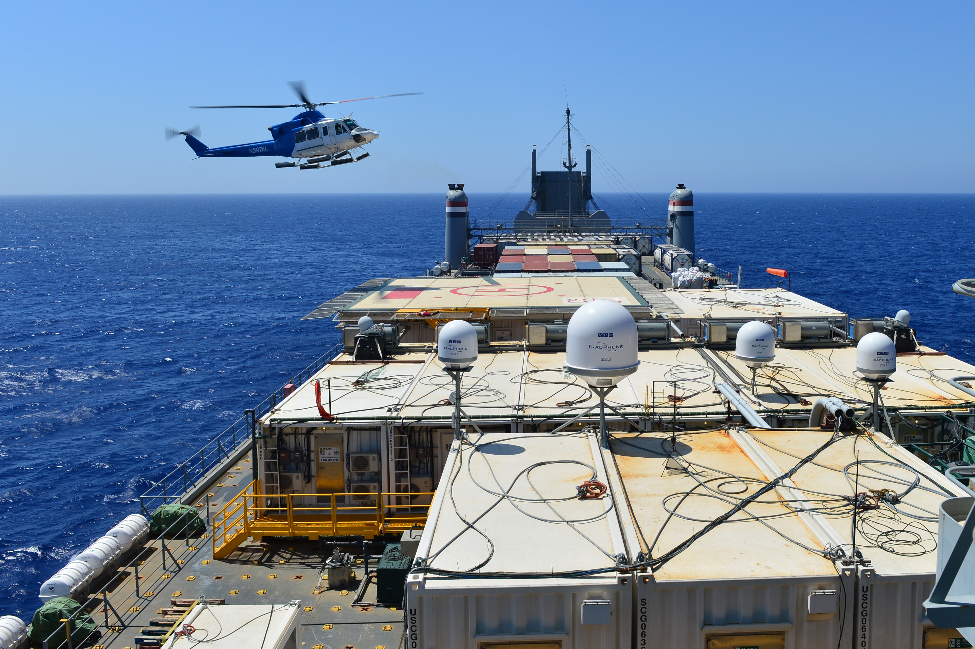 A helicopter approaches the container ship MV Cape Ray in the Mediterranean Sea to drop off cargo Aug. 4, 2014. The U.S. government-owned Cape Ray was modified and deployed to the eastern Mediterranean Sea to dispose of Syrian chemical agents in accordance with terms Syria agreed to in late 2013.